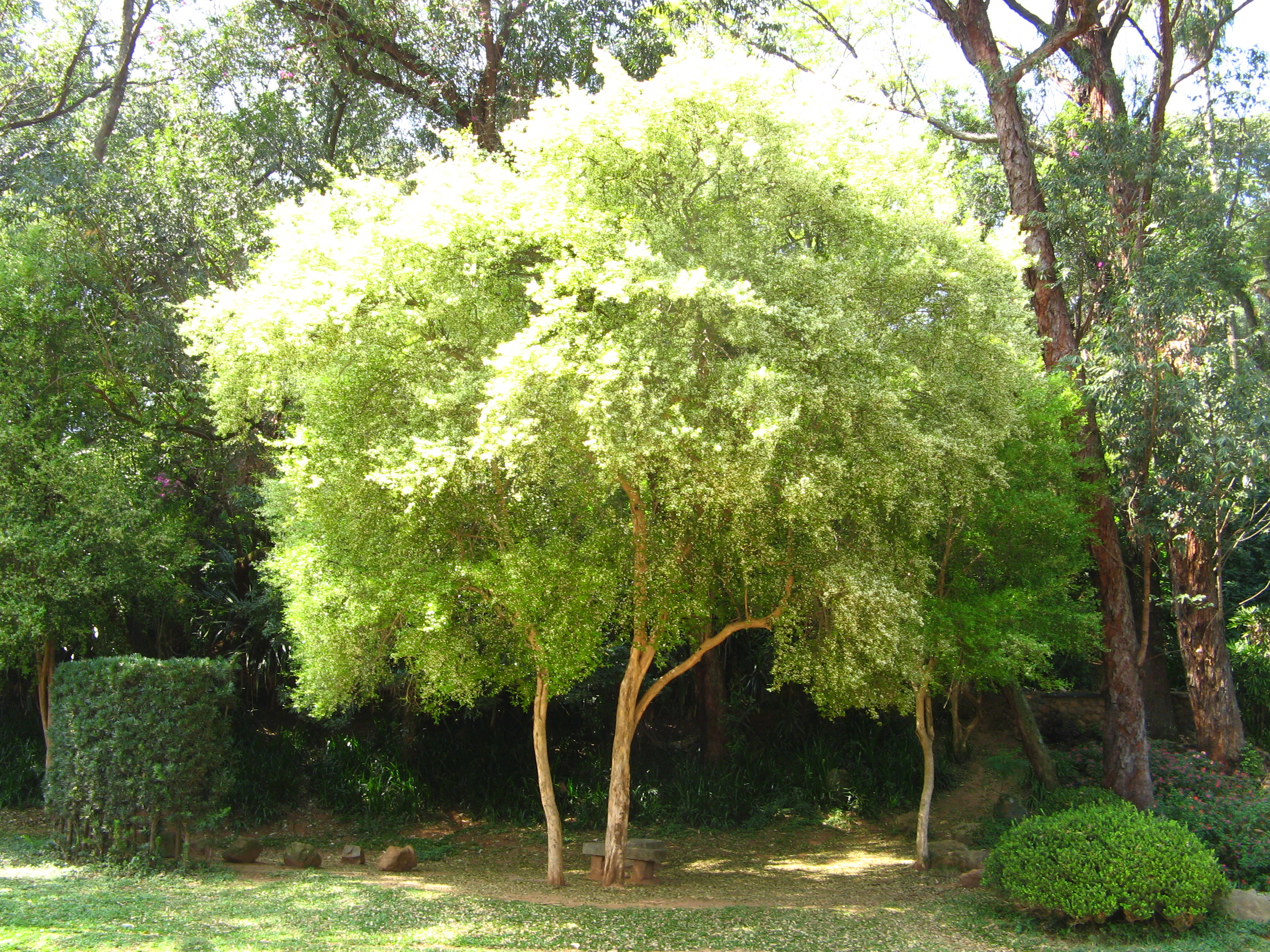 Pitangueiras trees (Eugenia uniflora) Sao Paulo